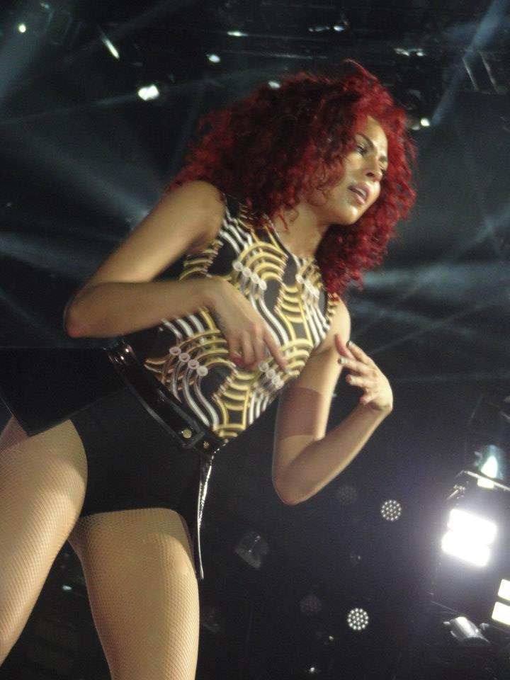 Ashley Everett performing at the LG Arena in Birmingham, UK, during Beyoncé's The Mrs. Carter Show World Tour, on April 26, 2013.